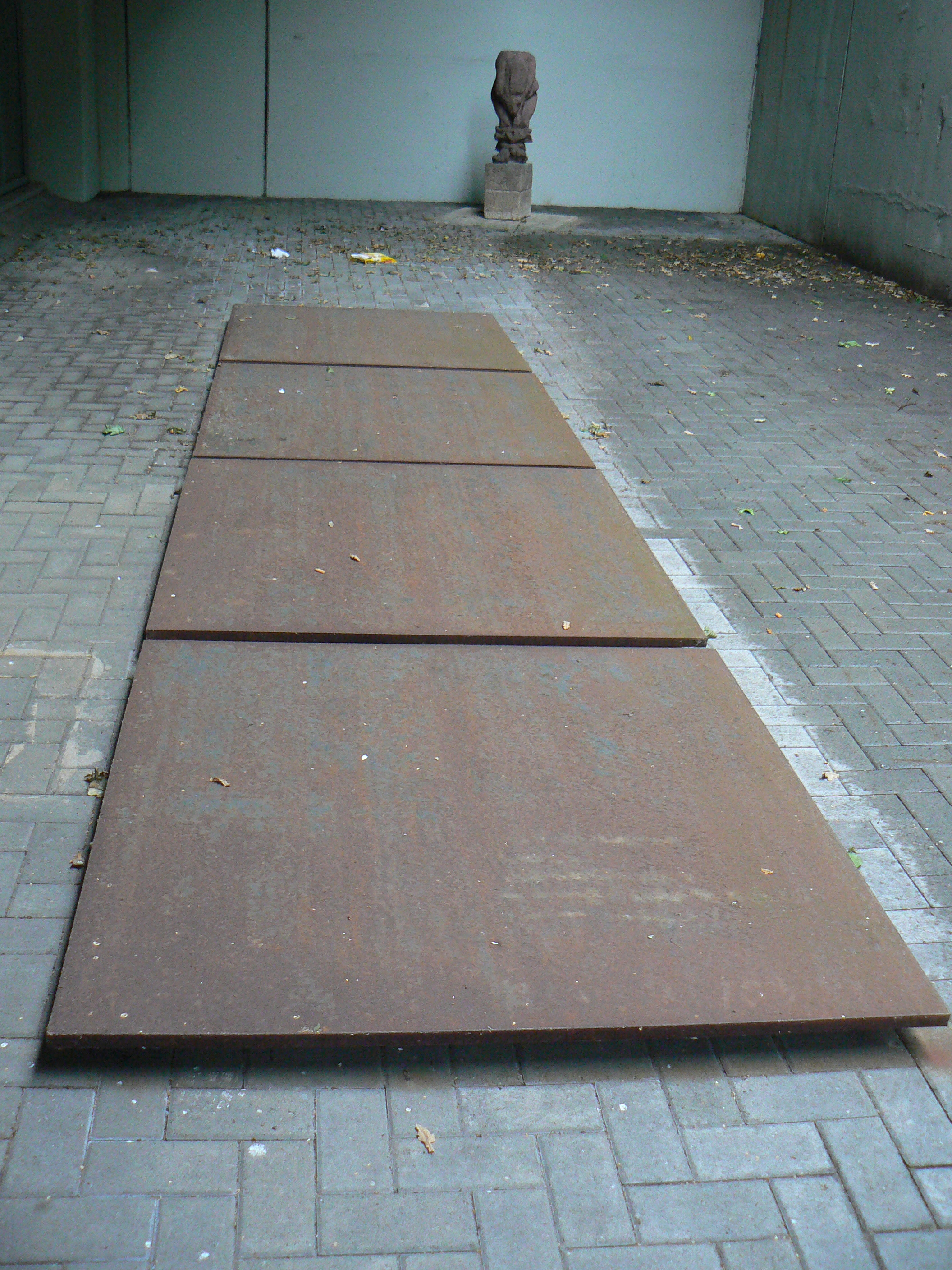 Sculpture 4 x Eisen by Rolf Julius behind Glaskasten Museum in Marl/Germany. Collection: Skulpturenmuseum Glaskasten